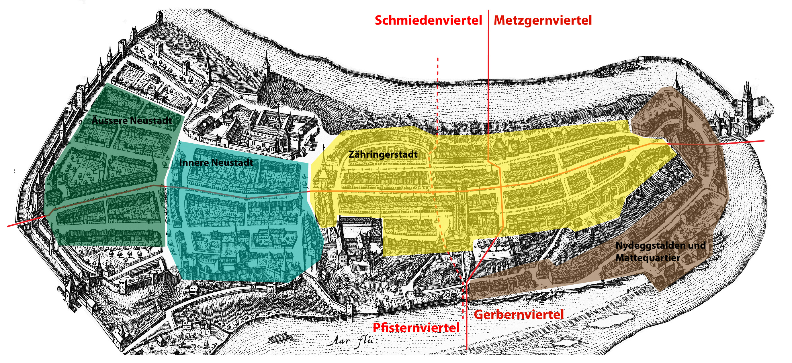 Historical districts ("Viertel") and neighbourhoods ("Quartiere") of the old town of Berne. The dotted line represents the new district boundary of the 16th to 18th century.